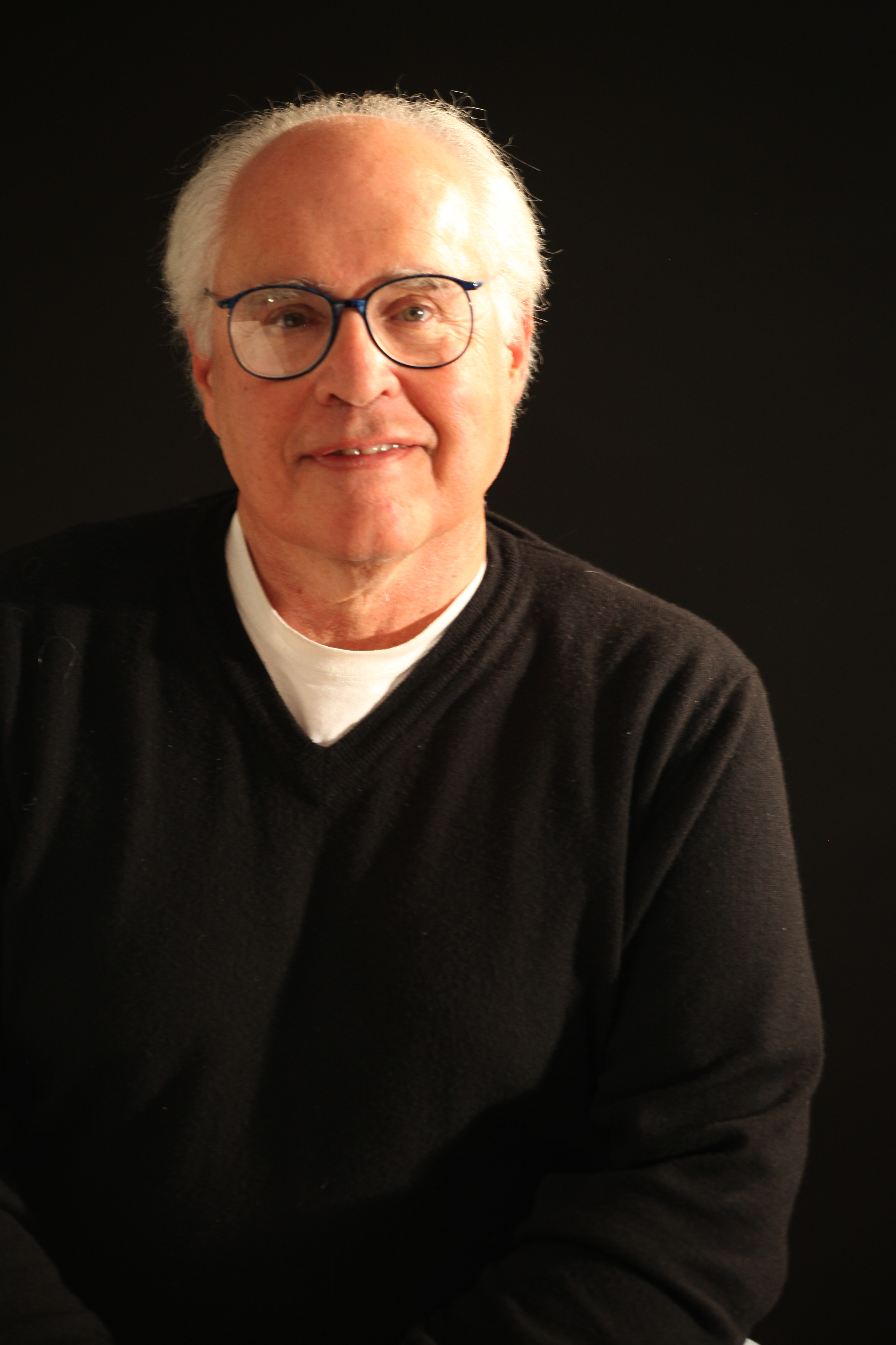 head shot of Ellis Horowitz taken on Nov. 2012